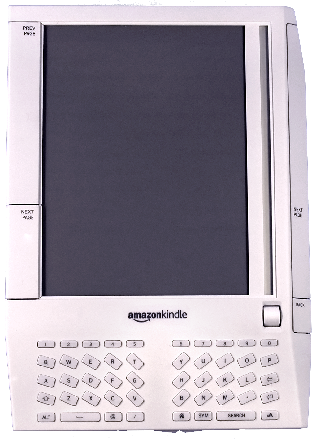 An Amazon Kindle Powered Off